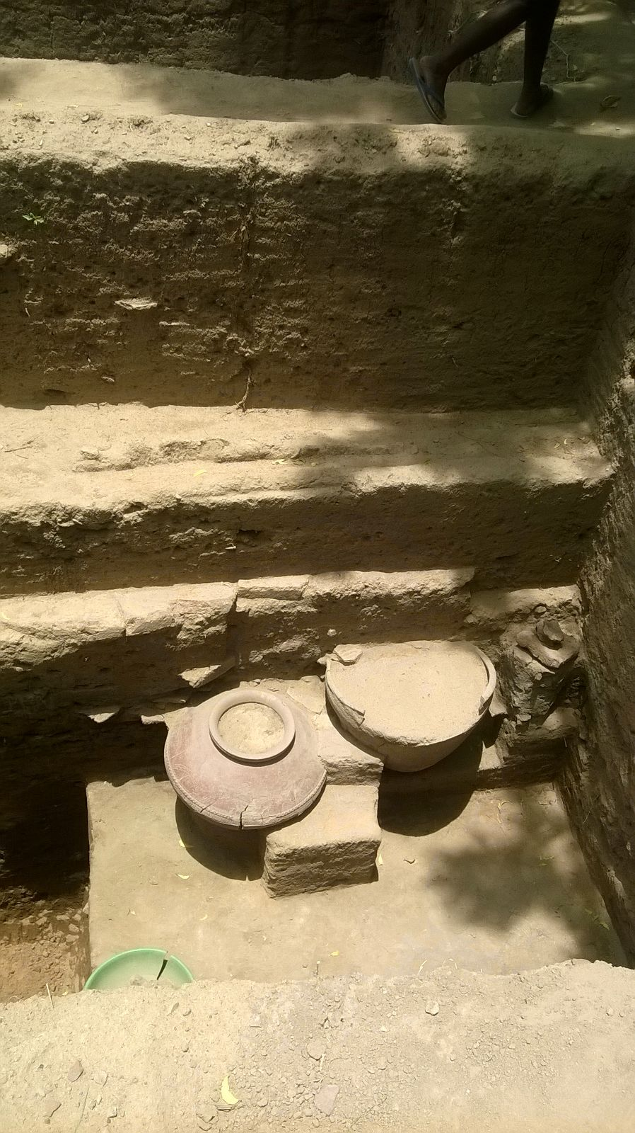 At the newly discovered archaeological site at Keezhadi near Madurai.